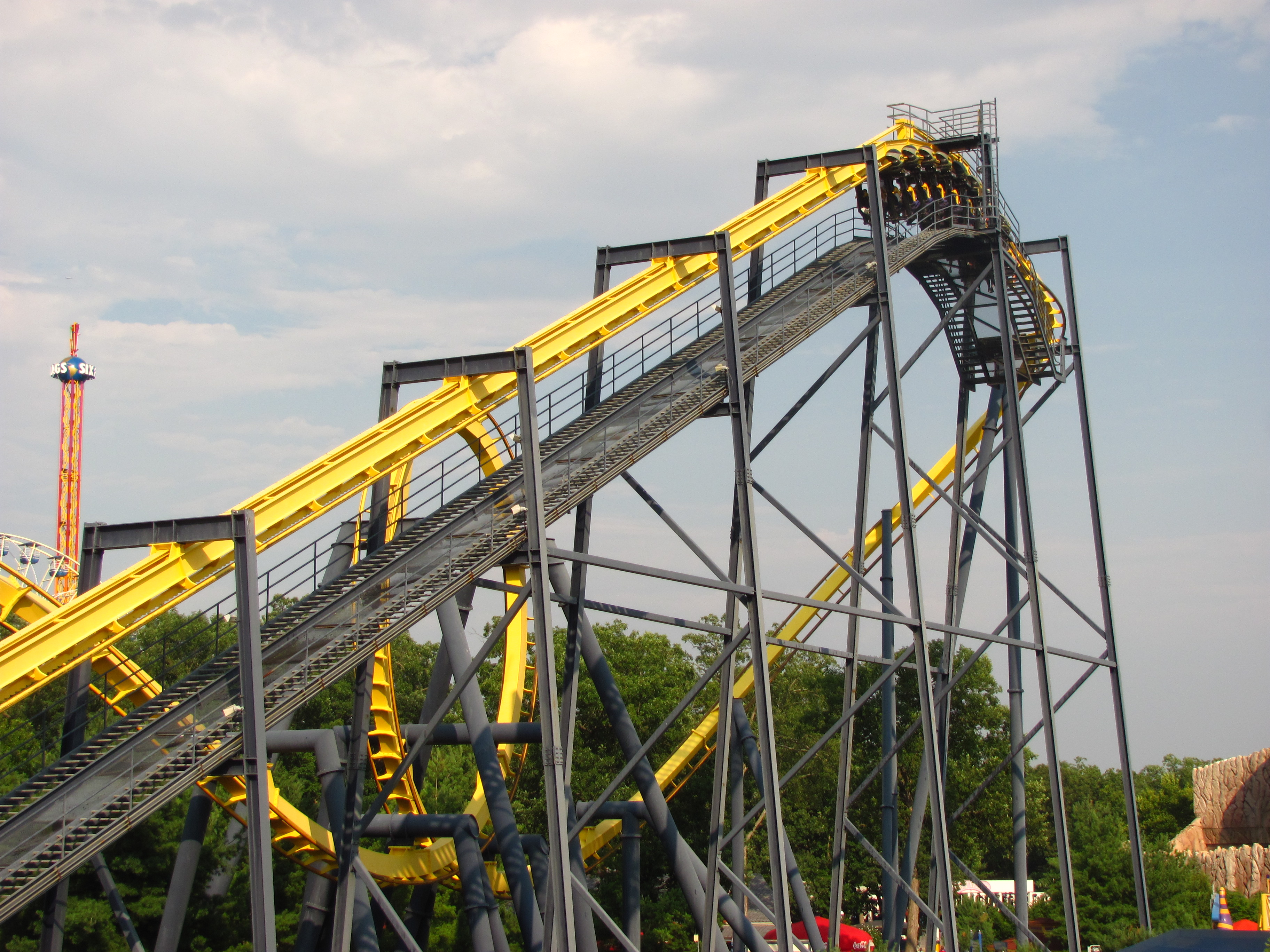 Six Flags Great Adventure 107